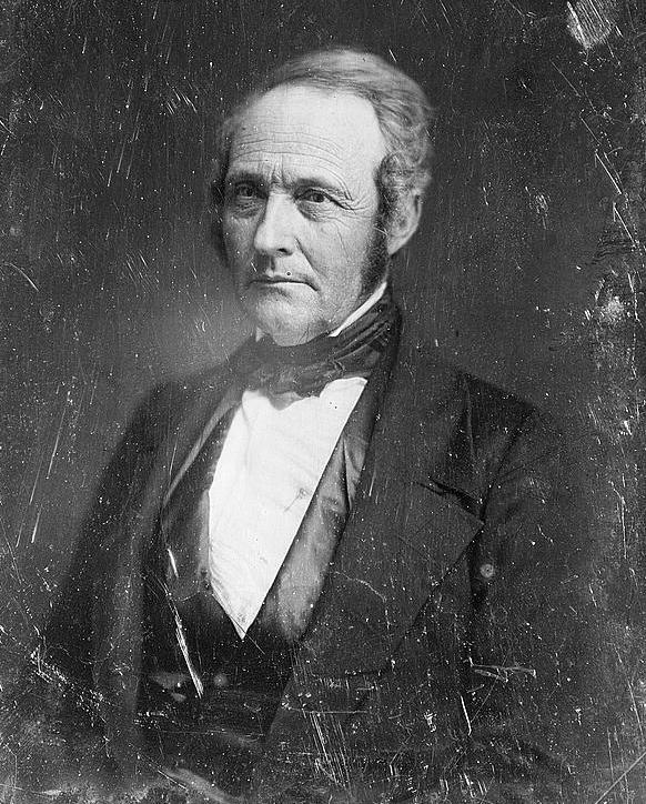 Jacob Collamer.